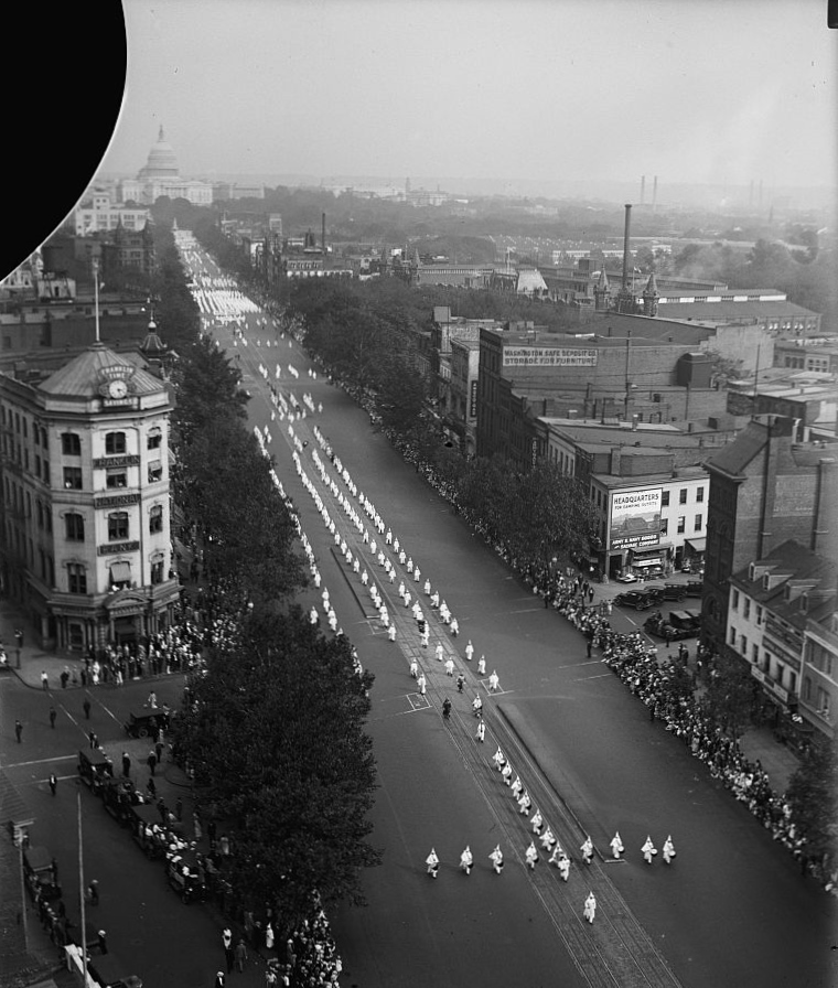 Ku Klux Klan parade, Washingotn, D.C., on Pennsylvania Ave., N.W.